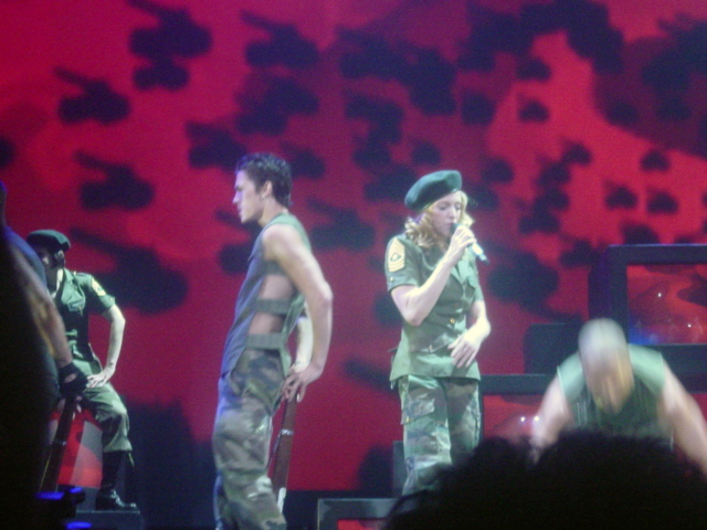 Concery